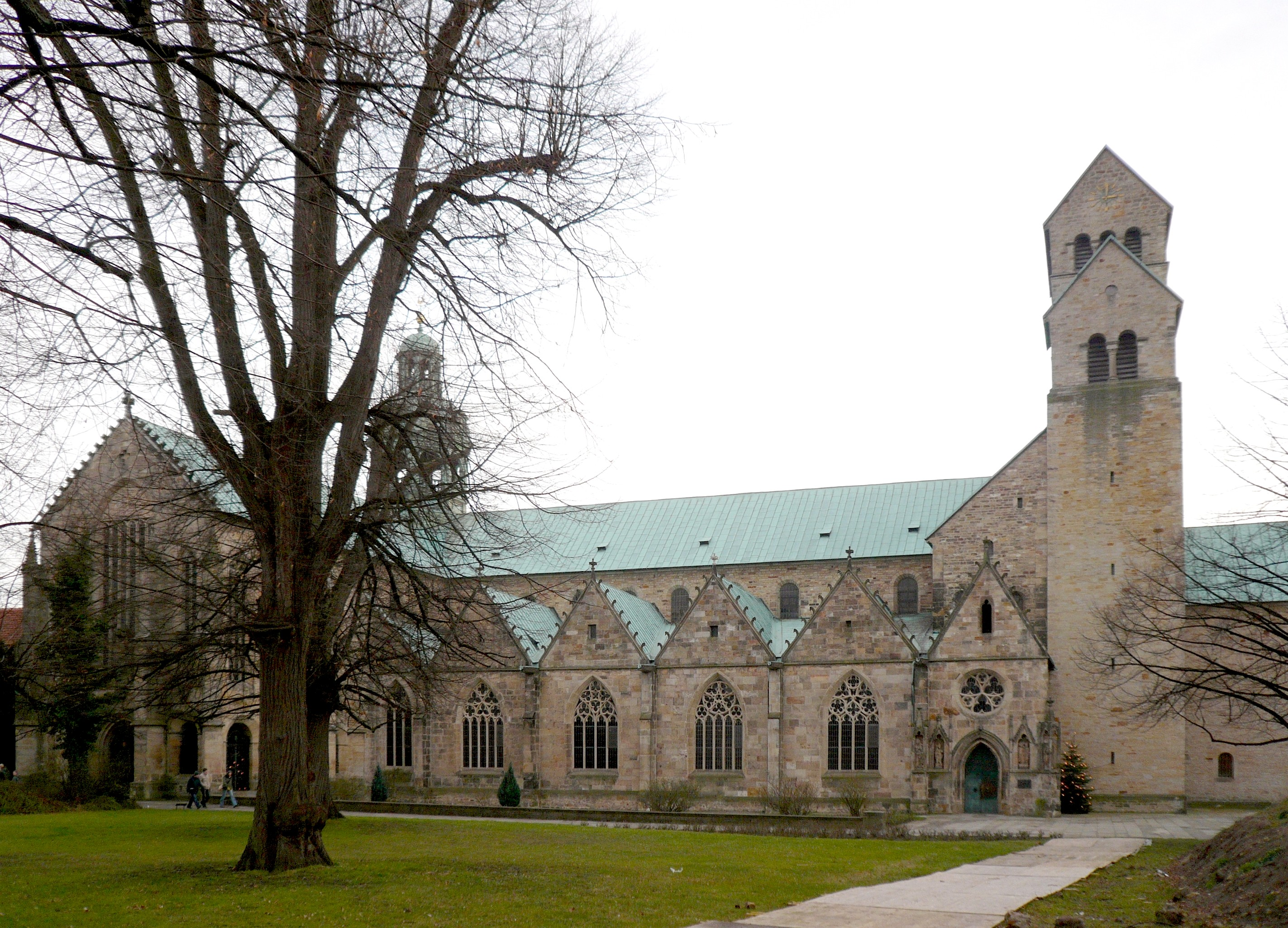 Hildesheim cathedral